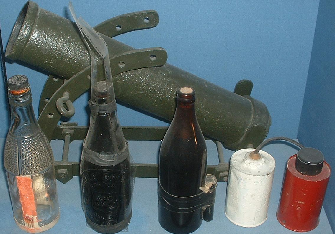 Photographed at the Imperial War Museum, London.